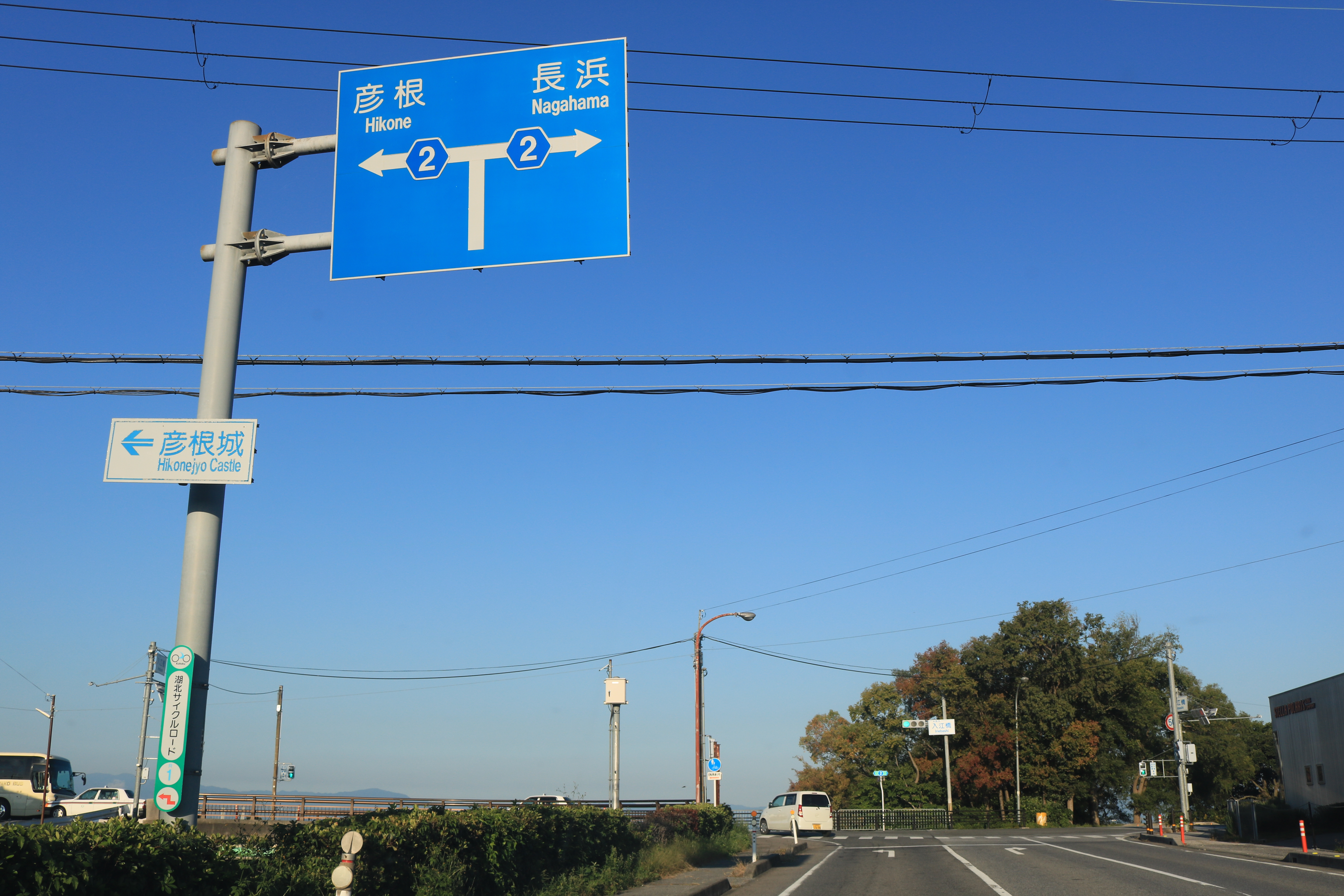 Shiga Prefectural Road Route 2 in Asazumachikuma, Maibara, Shiga prefecture, Japan.